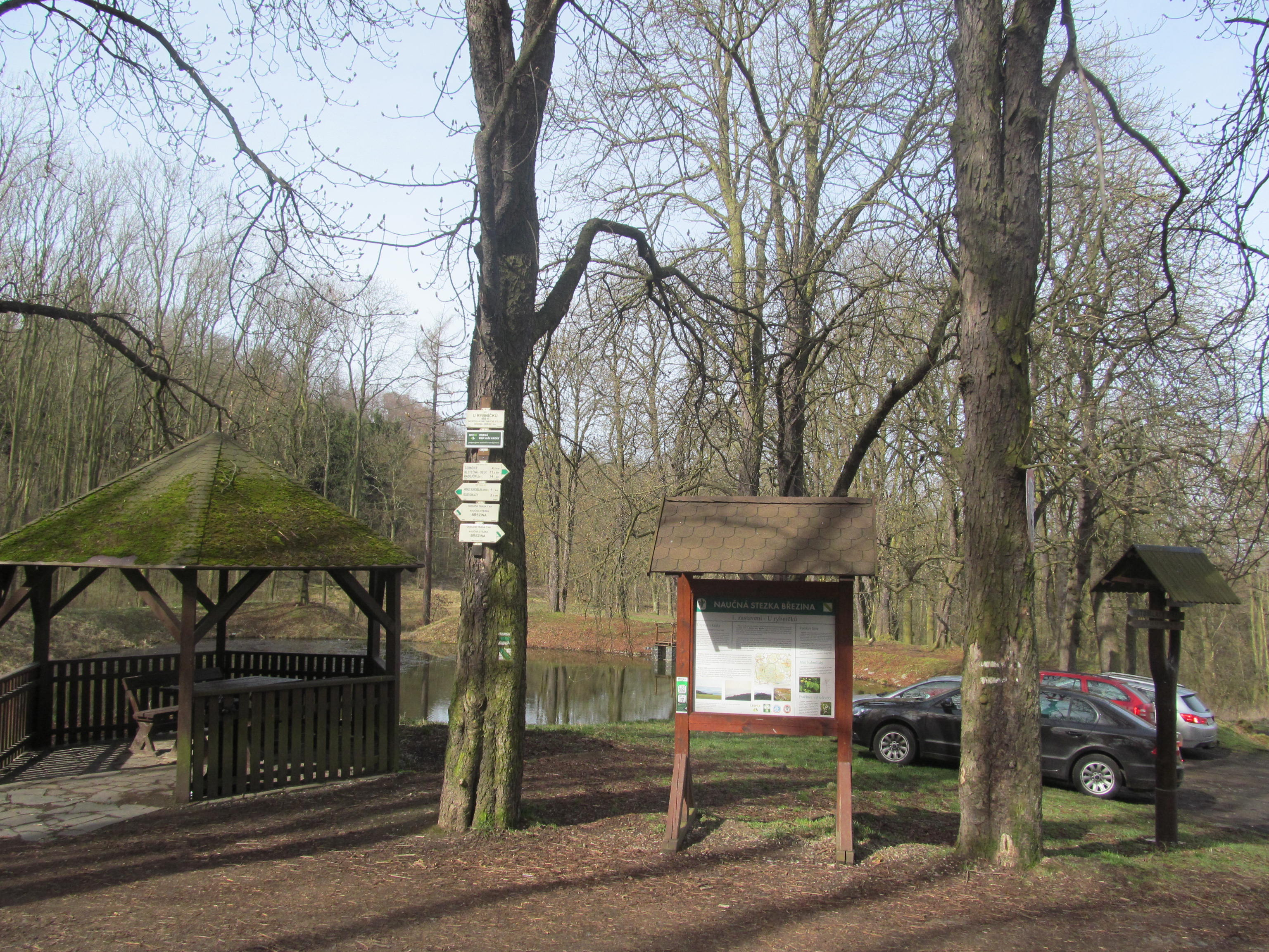 Educational trail Březina - stand No 1